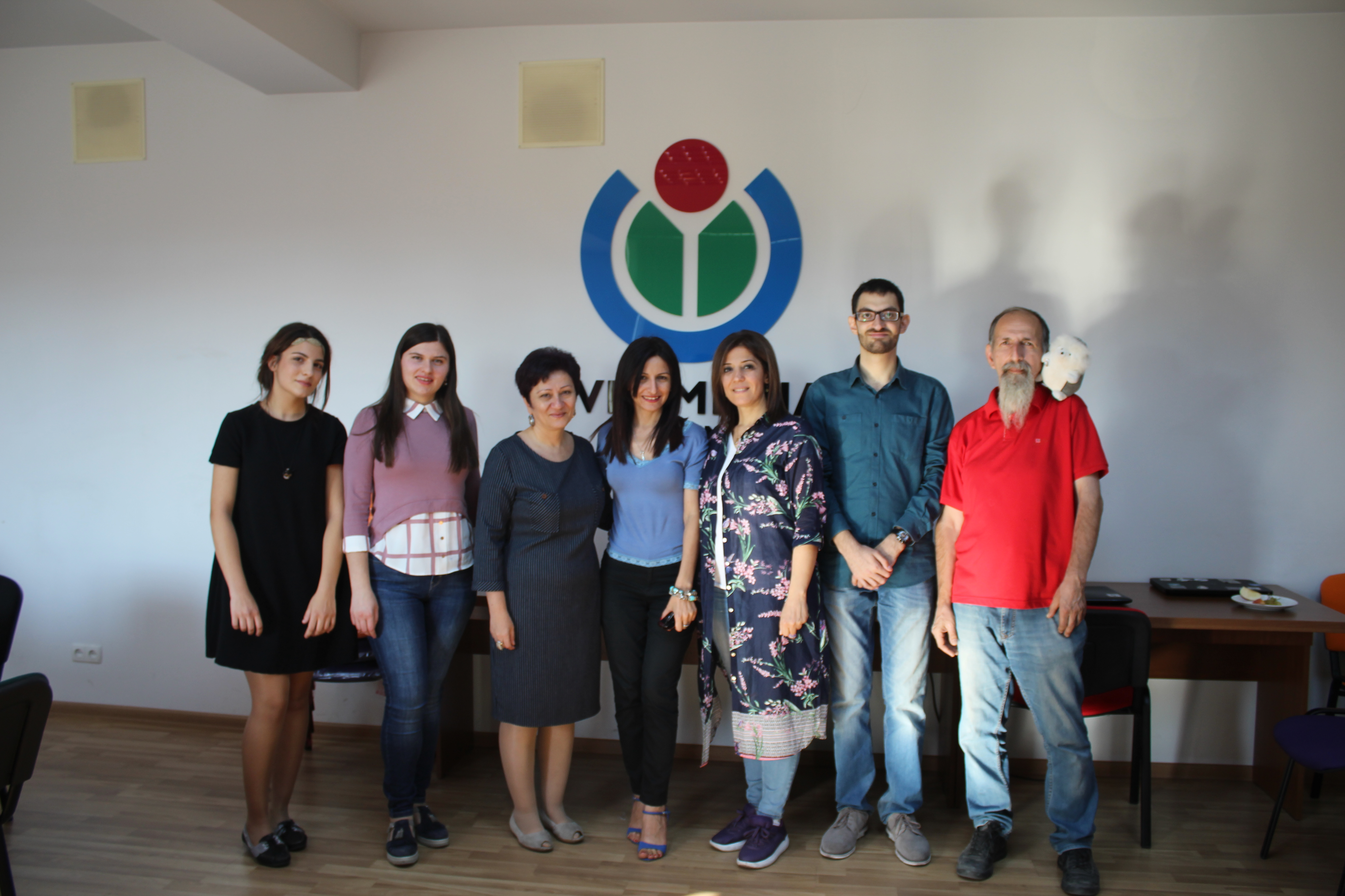 Days of Francophonie in Armenian Wikipedia